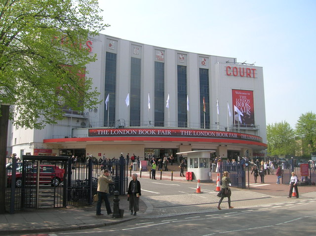 Earls Court Exhibition Centre from Warwick Road SW5, near to Kensington, Kensington And Chelsea, Great Britain. During the 2009 London Book Fair